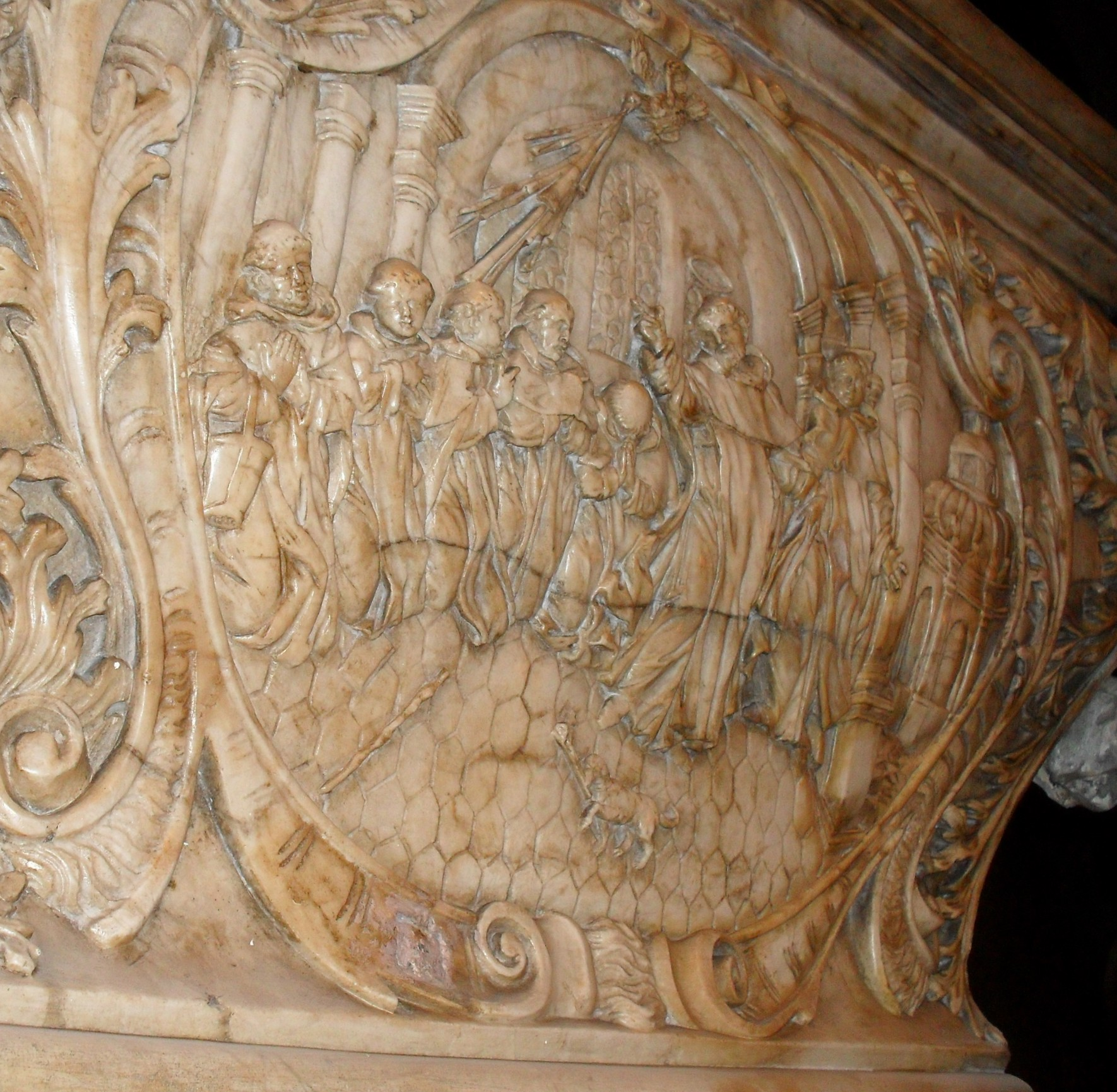 Bl. Ceslaus (third from left) listenning to the preaching of St. Dominic in Rome. Detail of the tomb of Bl. Ceslaus, Wrocław, Poland. Work of Georg Leonhard Weber (ca. 1675-1732) from Świdnica and Franz Joseph Magnoldt (+ 1761) from Wrocław.